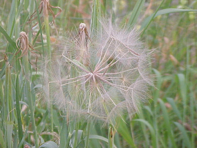 Species: Tragopodon pratense Family: Compositae Image No. 1